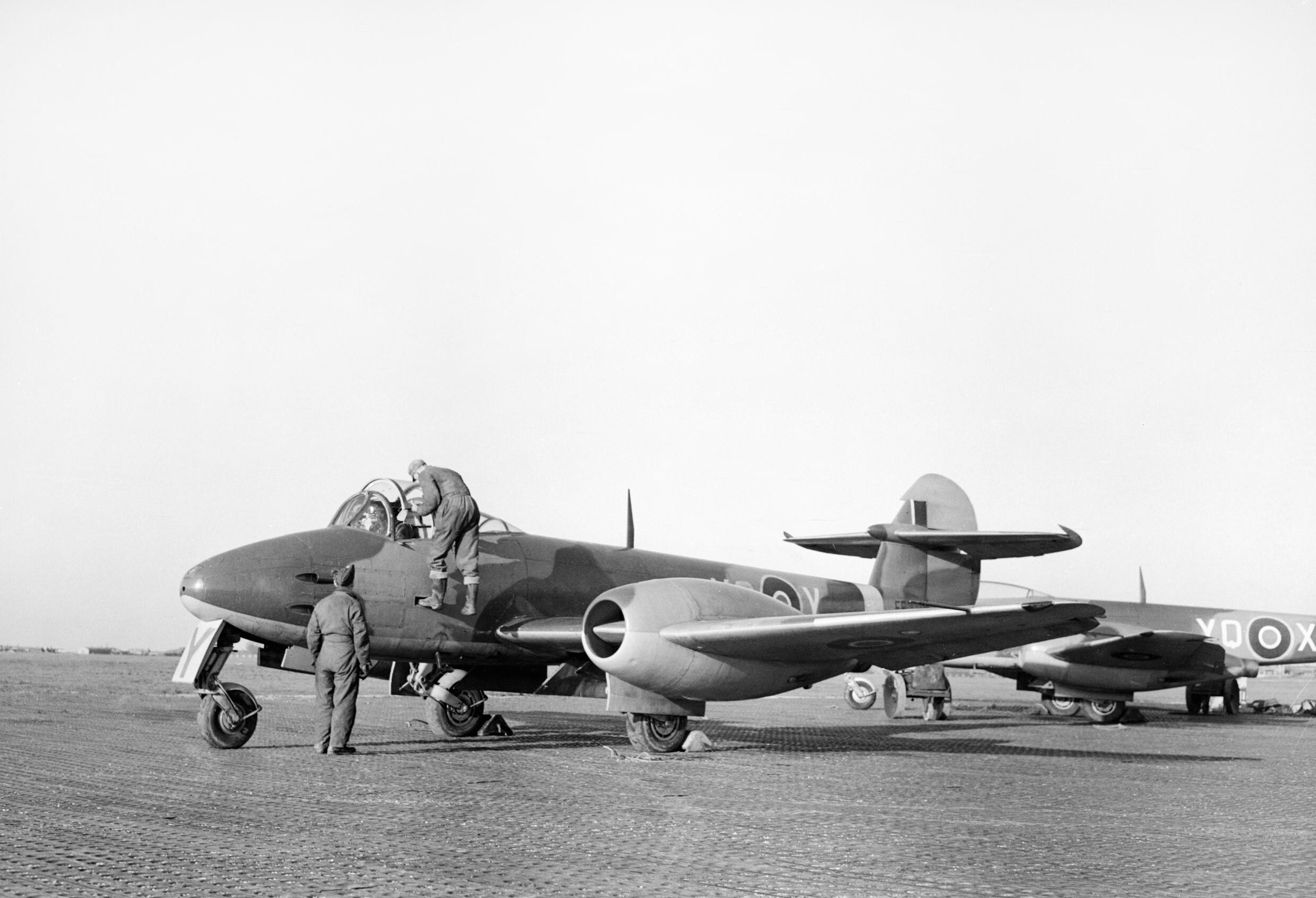 Gloster Meteor Mk Is of No. 616 Squadron RAF at Manston, Kent, 4 January 1945. Gloster Meteor Is of No 616 Squadron at Manston, 4 January 1945. The Allies' first operational turbo-jet aircraft, the Meteor entered service with No 616 in July 1944, being employed against the V-1s. Despite its revolutionary power-plant (two 1,700lb-thrust Rolls-Royce Welland engines), the Meteor I's top speed of 410mph was below that of the Tempest or Spitfire XIV.